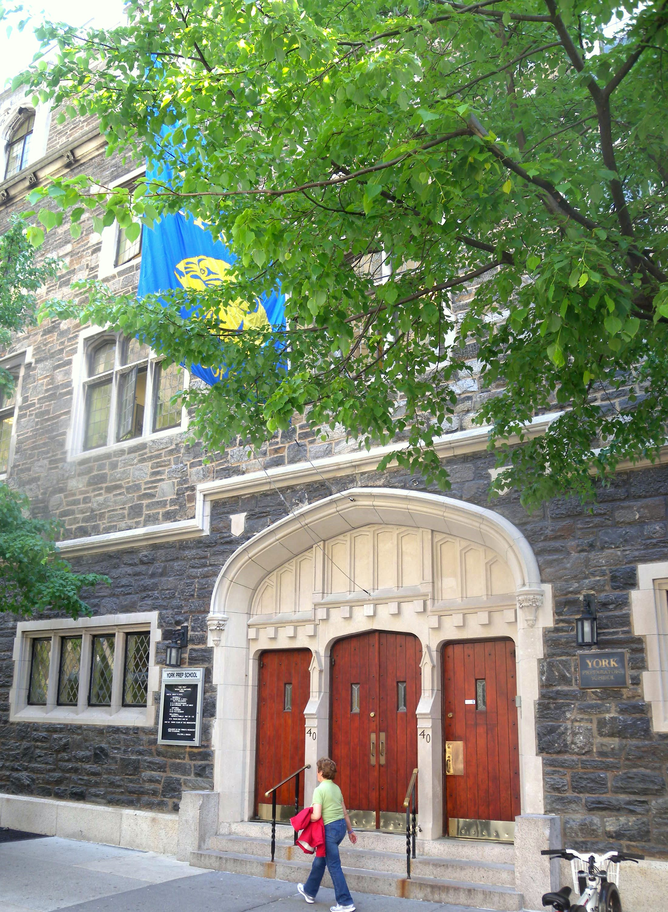 Looking south at York Prep on a sunny day. ZIP 10023.